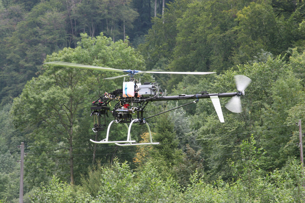 Aeroscout Scout B1-100 UAV Helicopter with Gimbal